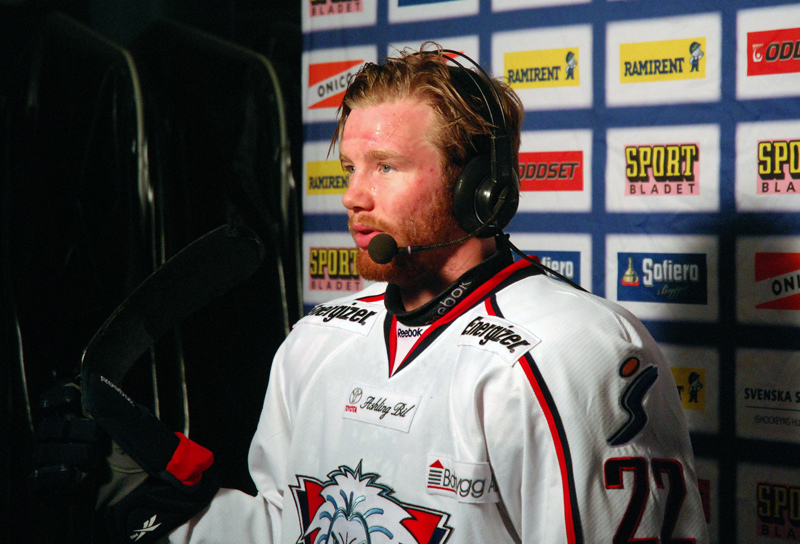 Robin Figren during a SHL game against AIK.